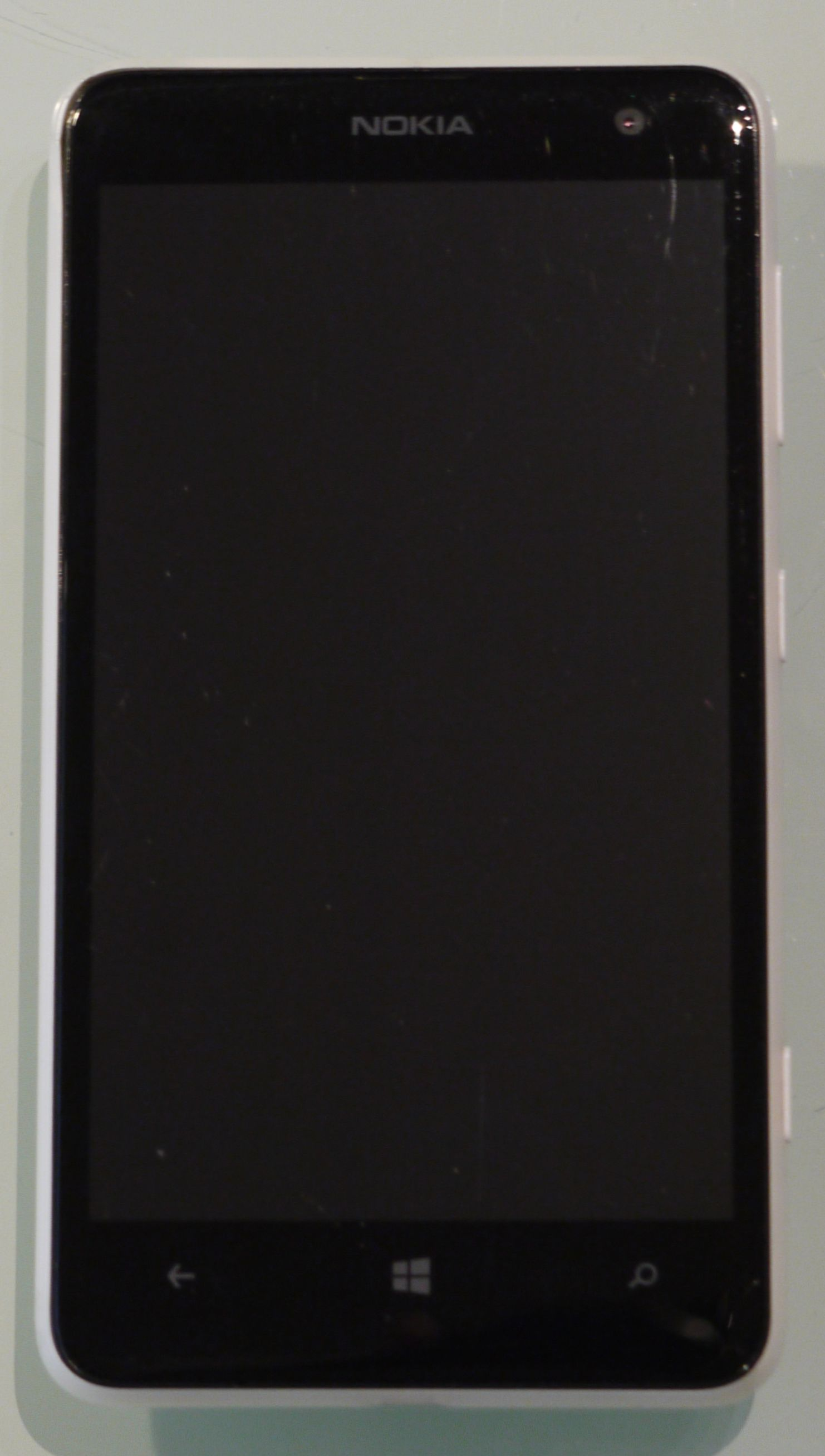 Nokia Lumia 625 smartphone